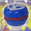 Trompos for children. Smart top.